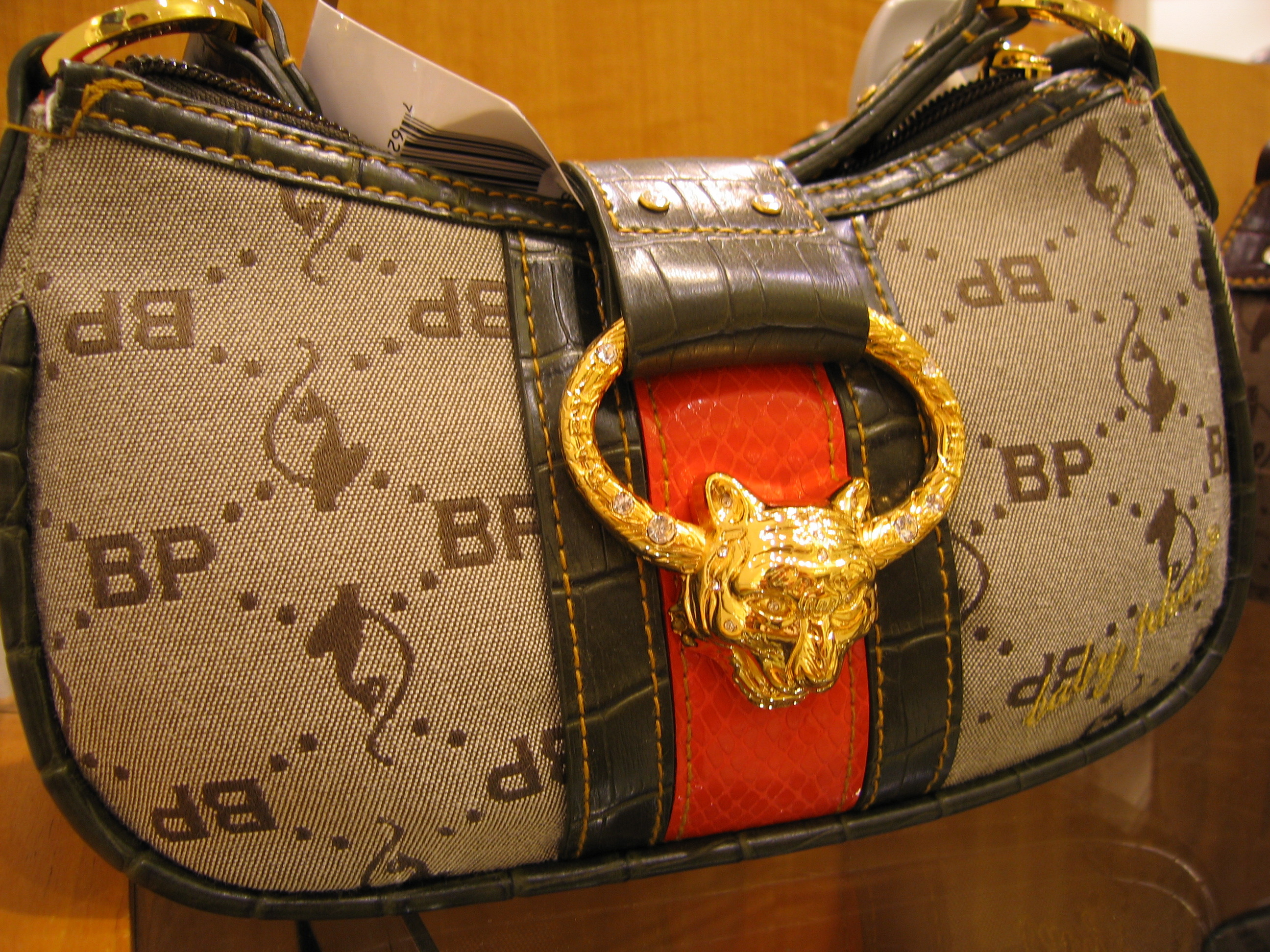 Rachel's New Purse